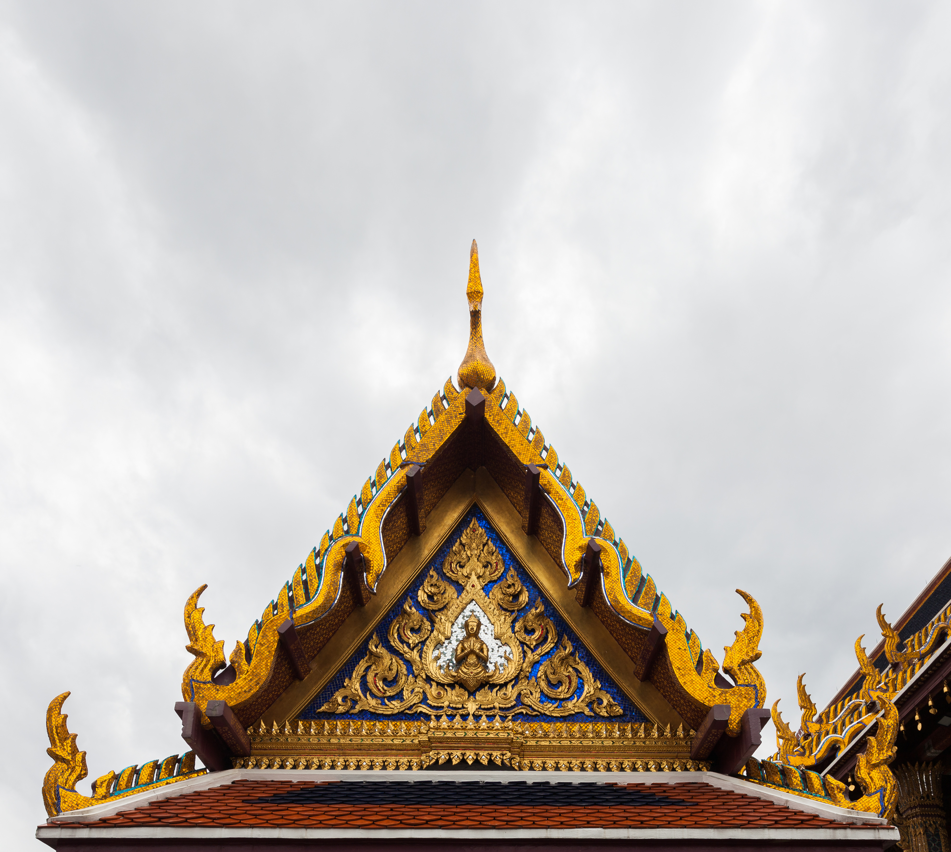 Gradn Palace, Bangkok, Thailand